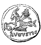 738 woodcuts illustrating the work A Dictionary of Roman Coins, Republican and Imperial (1889). To identify a coin please look at the filename to identify a page number, and check the Dictionary on numiswiki